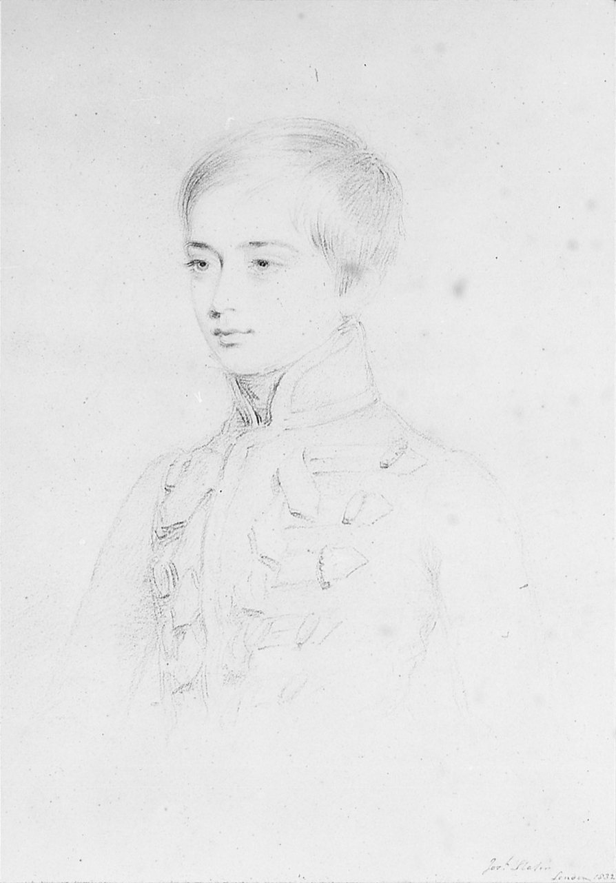 Prince Edward of Saxe-Weimar by Joseph Slater, 1832, drawing, watercolour, 17 x 24 cm